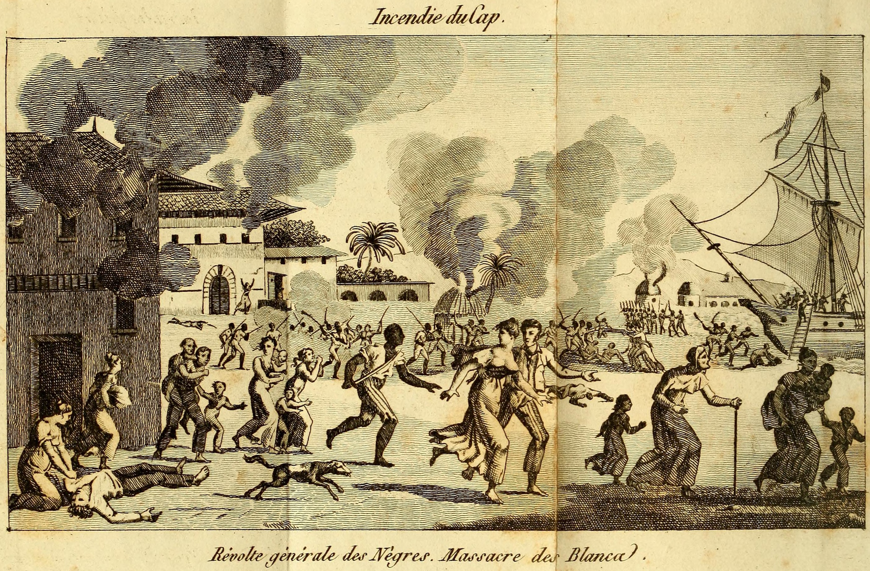 "Incendie du Cap" (Burning of Cape Francais). "Revolte générale des Négres. Massacre des Blancs" (General revolt of the Blacks. Massacre of the Whites).